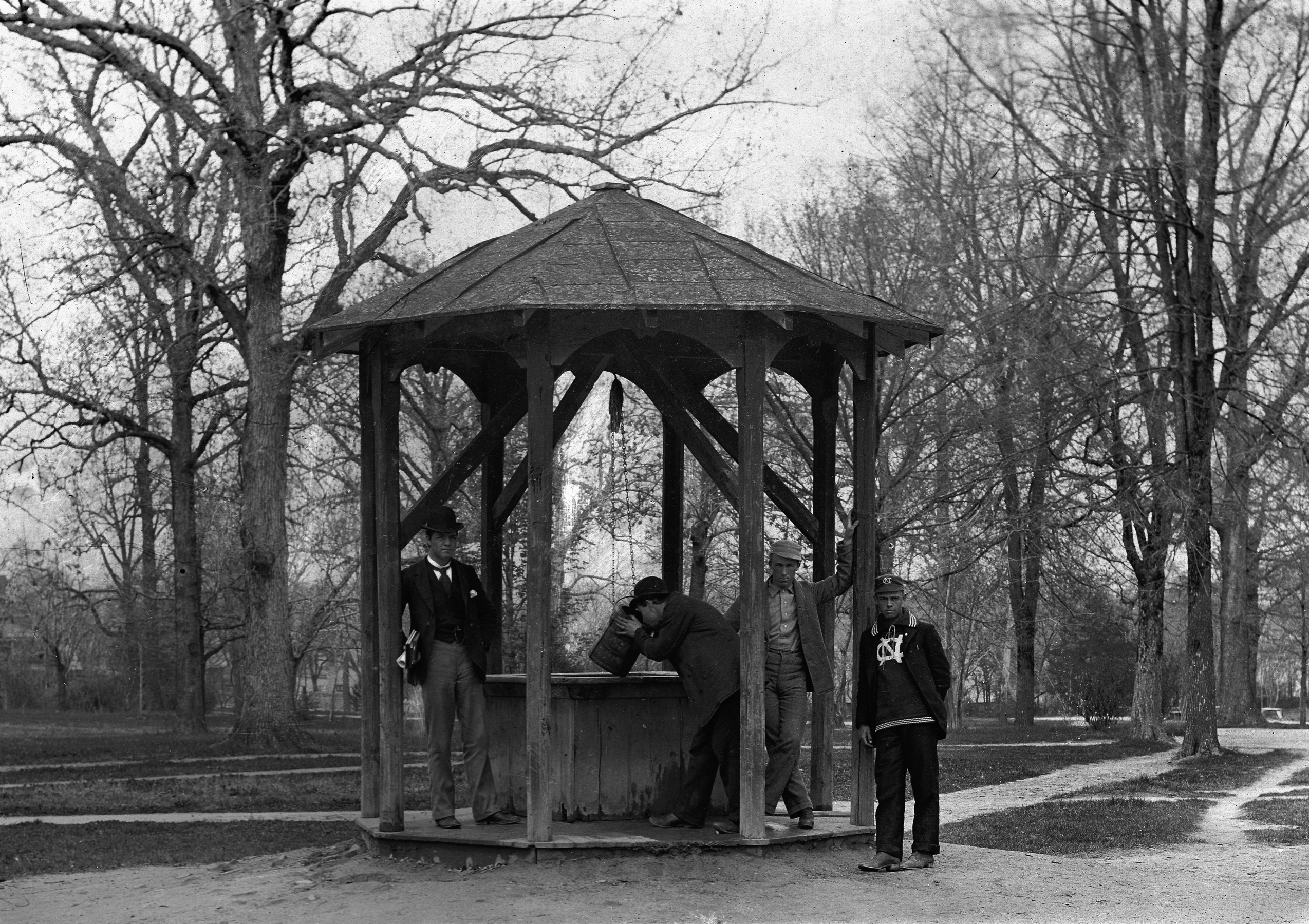 A man drinking from the bucket at the "Old" Old Well at the University of North Carolina at Chapel Hill, 1892.